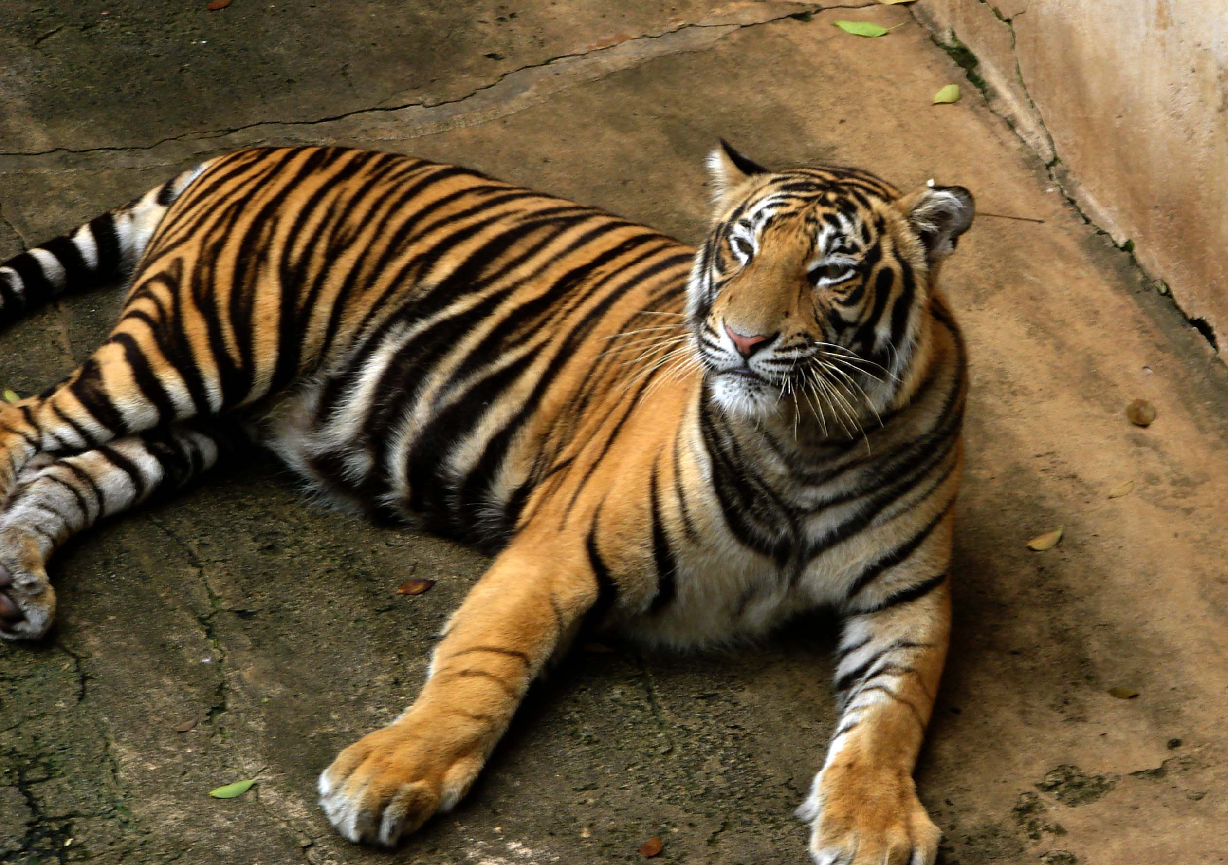 Royal Bengal Tiger at Dehiwala Zoo.